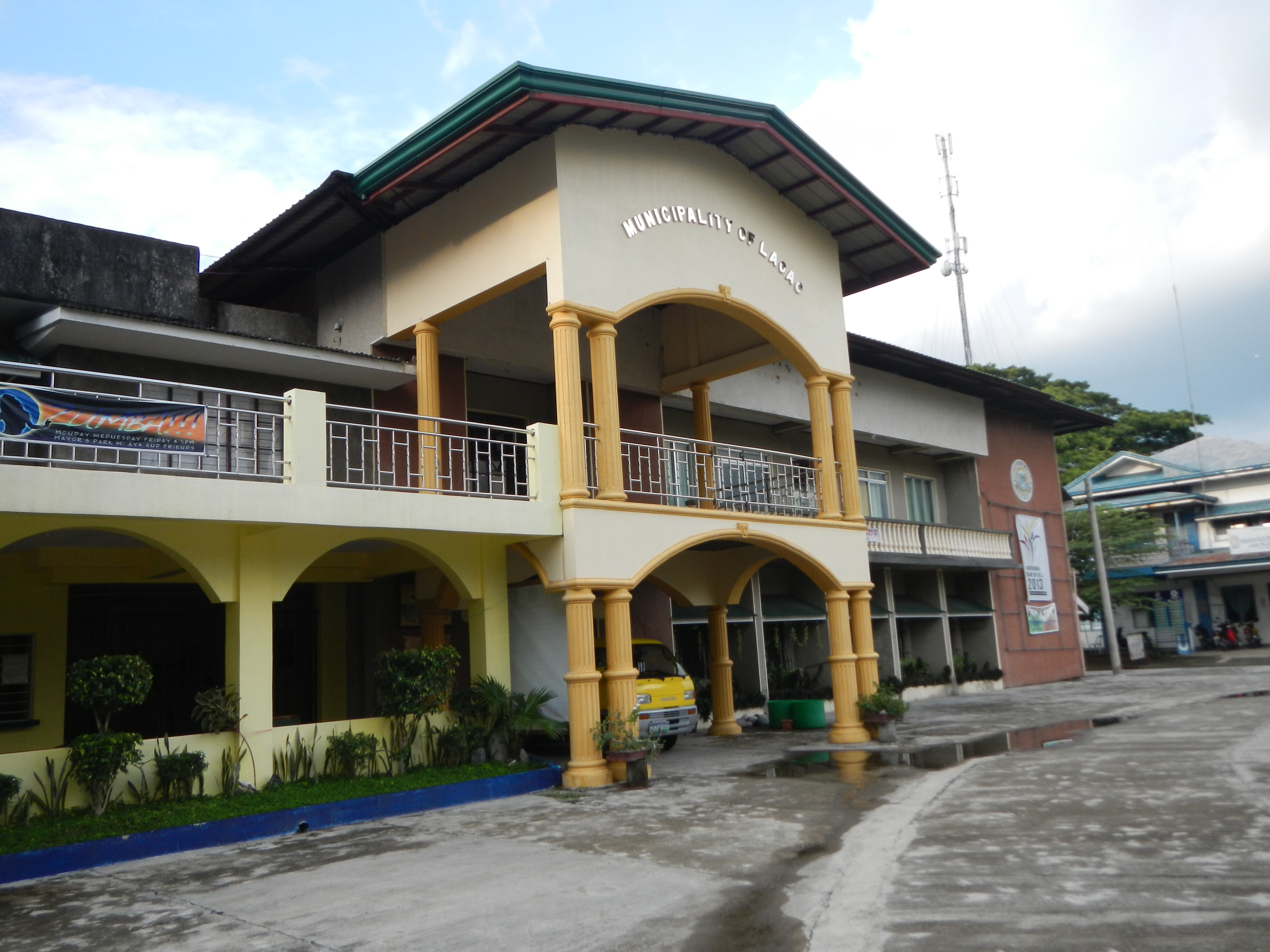 Upload Wizard photos of - (general description of group photos uploaded, the landmarks, church, town hall complex and interesting points) --- Barangay Balligi, Welcome Zone 1, Boundary Arch, Welcome Sign, Monument of Laoac, the scenery, green fields, rice paddys, rice fields, blue sky and burning sun, along the Maharlika or Pan-Philippine Highway, Holy Cross Parish Church of Laoac,[1] Vicariate III: Vicariate of Saint Thomas Aquinas (Queen of the Most Holy Rosary) Roman Catholic Archdiocese of Lingayen-Dagupan[2] [3] Poblacion, Iglesia Ni Kristo, Junction, Crossing, and Town Hall of - Laoac, Pangasinan[4] (a fourth class municipality in the province of Pangasinan, [5]Philippines; 2010 census, [6] Coordinates: 16°2'9"N 120°32'23"E has a population of 29,456 people, politically subdivided into 22 barangays)[7].